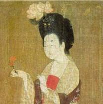 Beauties Wearing Flowers (46x180 cm)